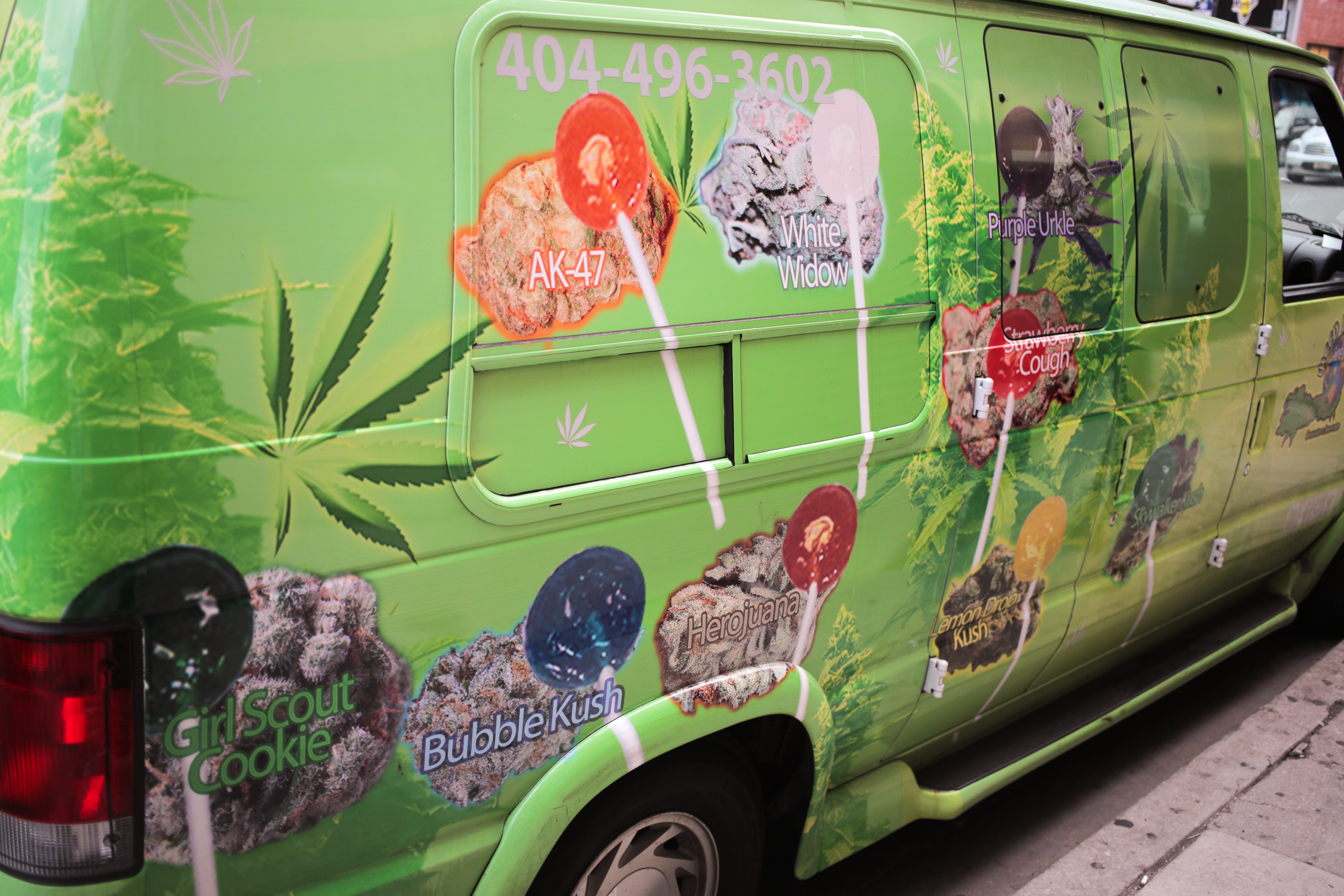 Weed World Candies -Photo Walk Chicago September 2, 2013-4900